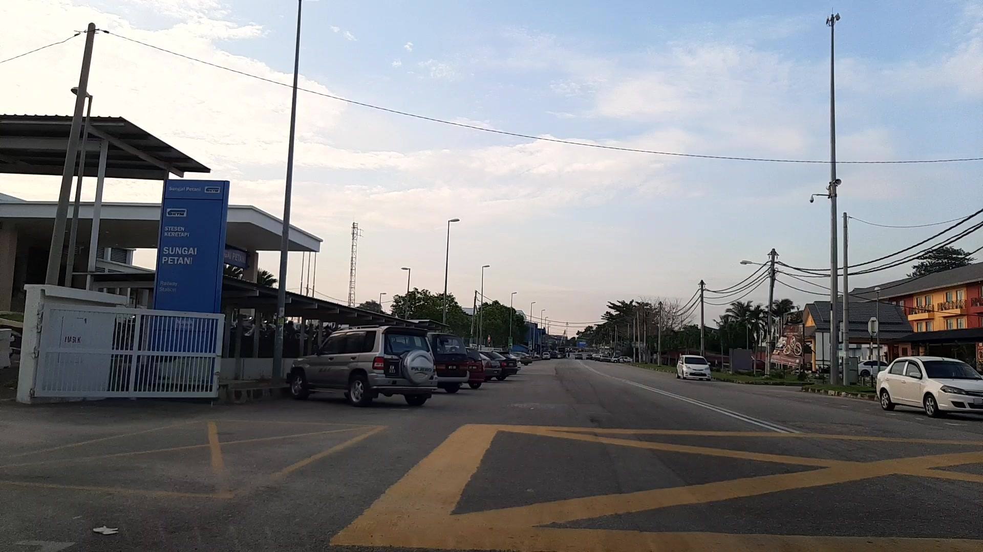 Sungai Petani railway station OSC